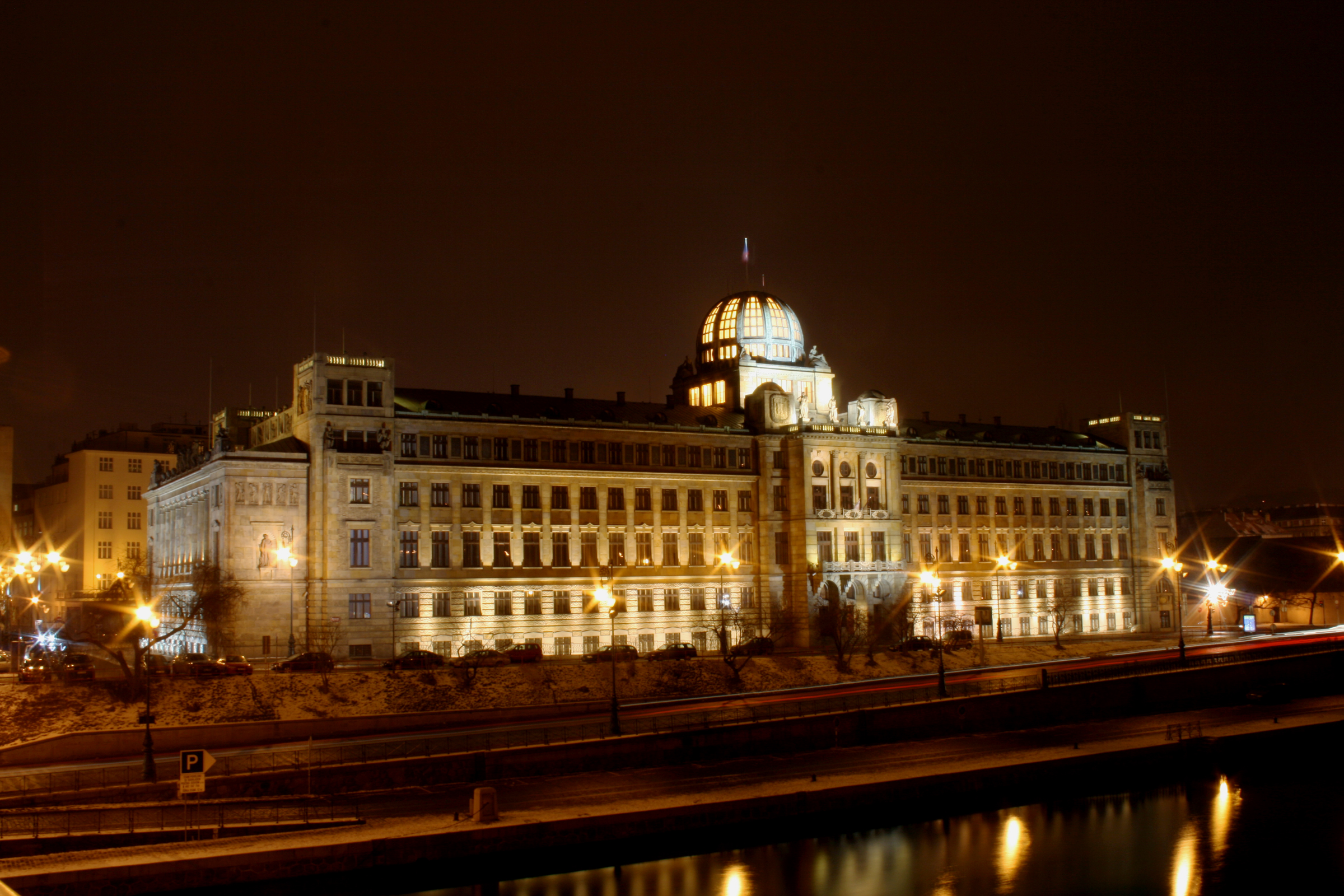 Building of Ministry of industry taken from Štefánik Bridge in Old Town, Prague, Czech Republic